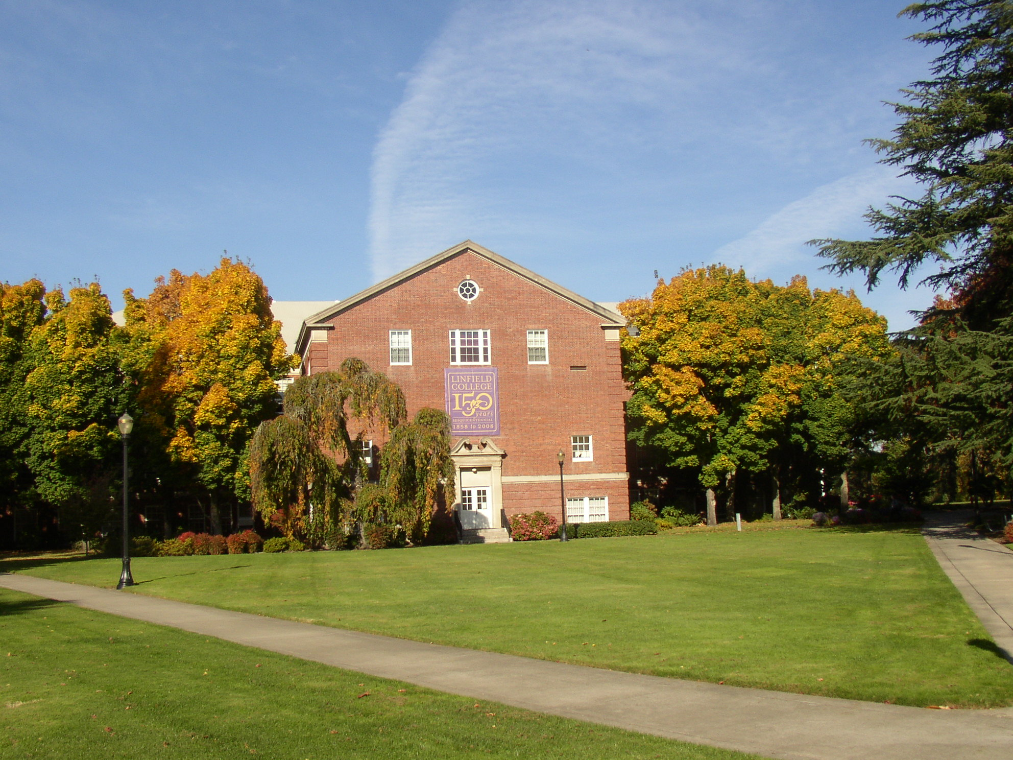 Melrose Hall at Linfield College, McMinnville, Oregon